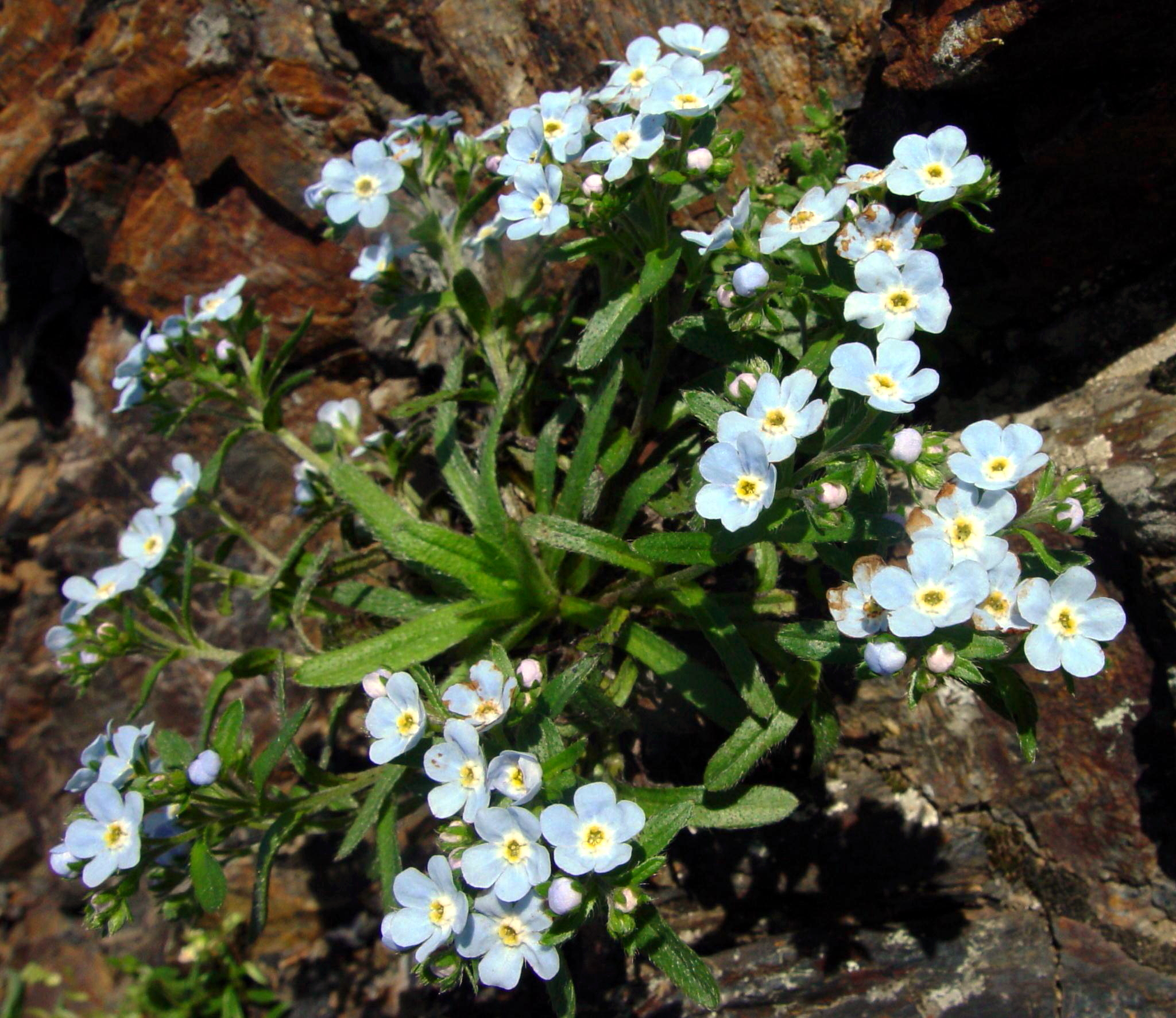 Eritrichium nipponicum in Mount Hijiri, Akaishi Mountains, Iida, Nagano Prefecture, Japan.